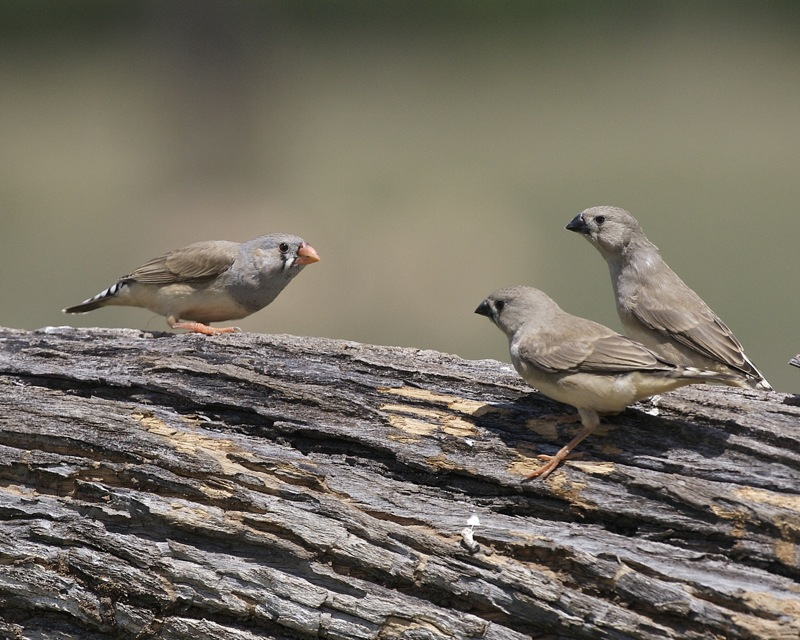 An parent female Zebra Finch with two juveniles in Blue Mountains, New South Wales, Australia.